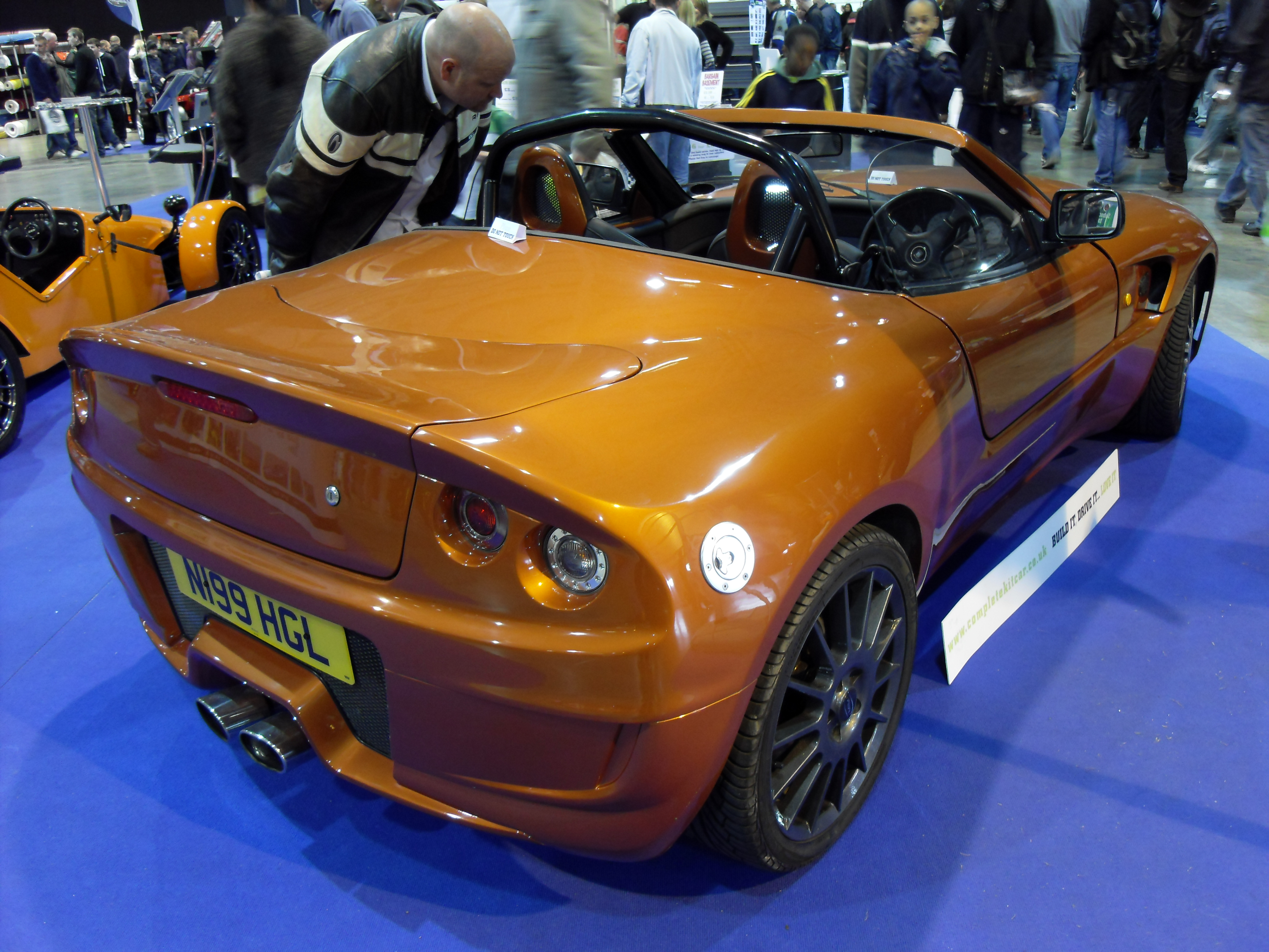 VLUU L310 W / Samsung L310 W taken at The National Kit Car Show Stoneleigh 2009